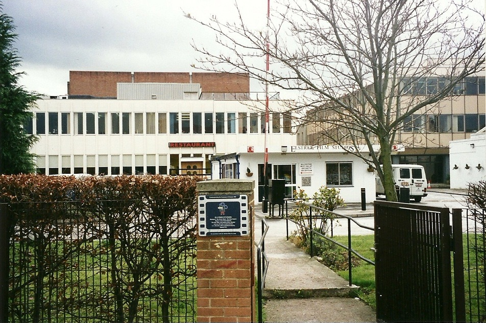 Elstree Studios main gate, taken in the late 1990s.